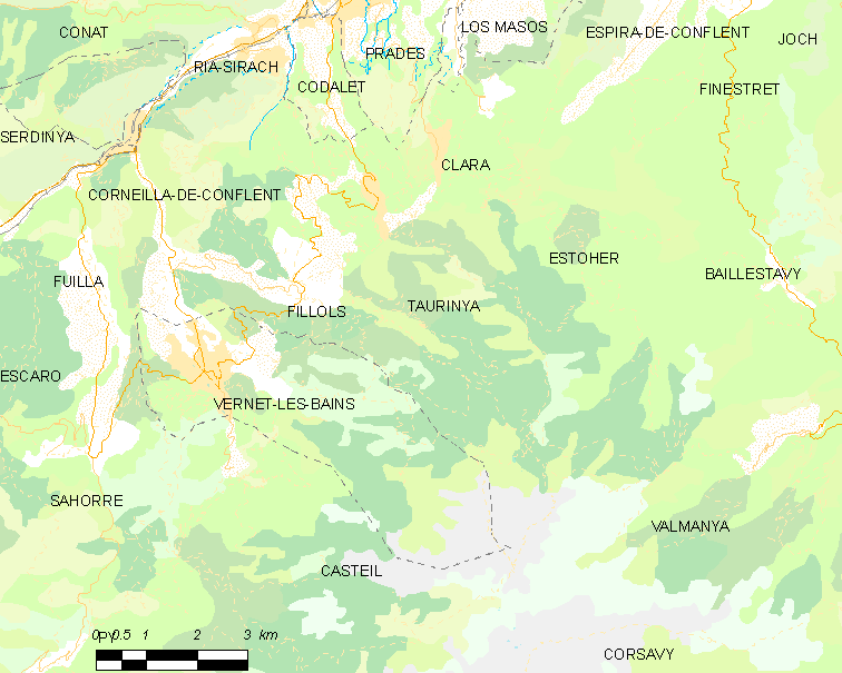 Map of French municipality